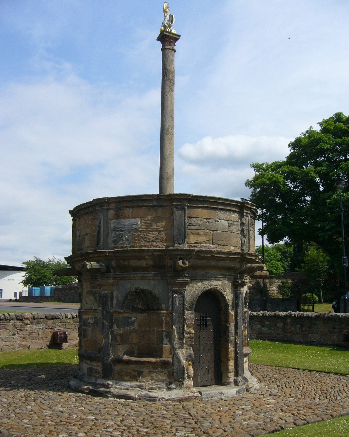 The old Preston Cross, built some time after 1617, when the Hamiltons of Preston Tower granted the town the privilege of holding a weekly market and annual fair.